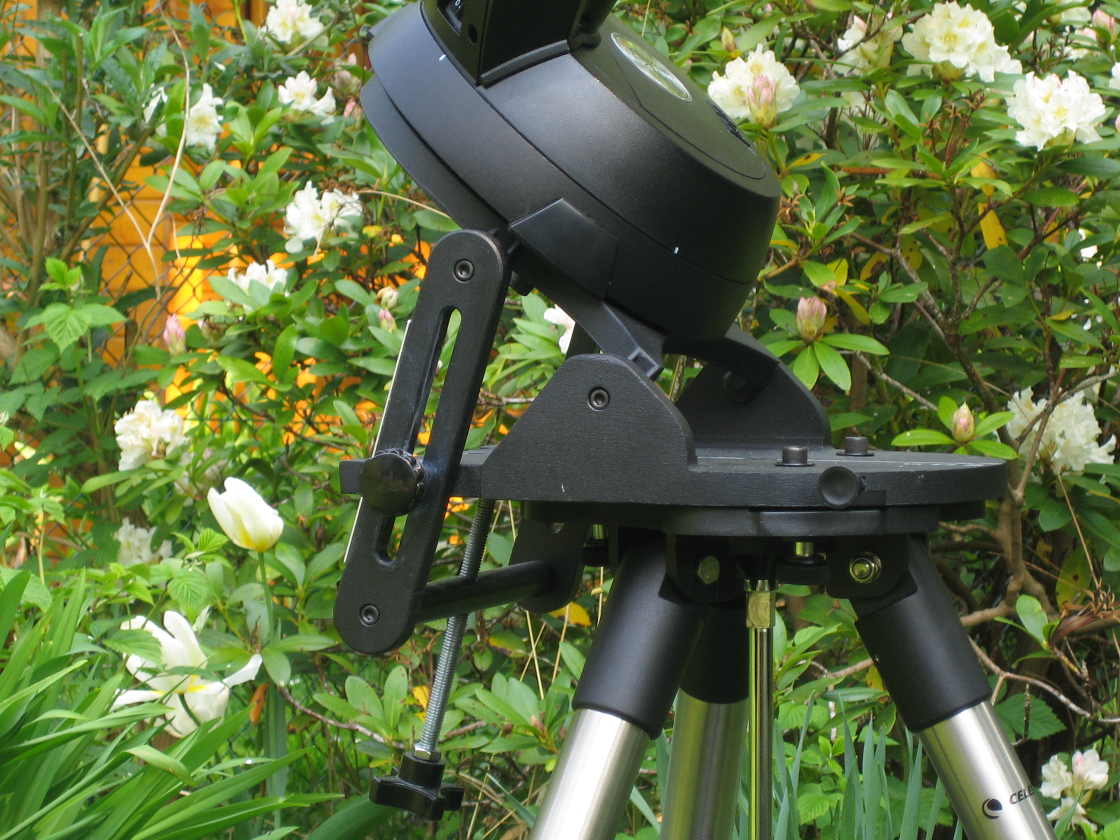 Detail of Celestron Mount "Nexstar 2" whith polar adaptor (wedge)